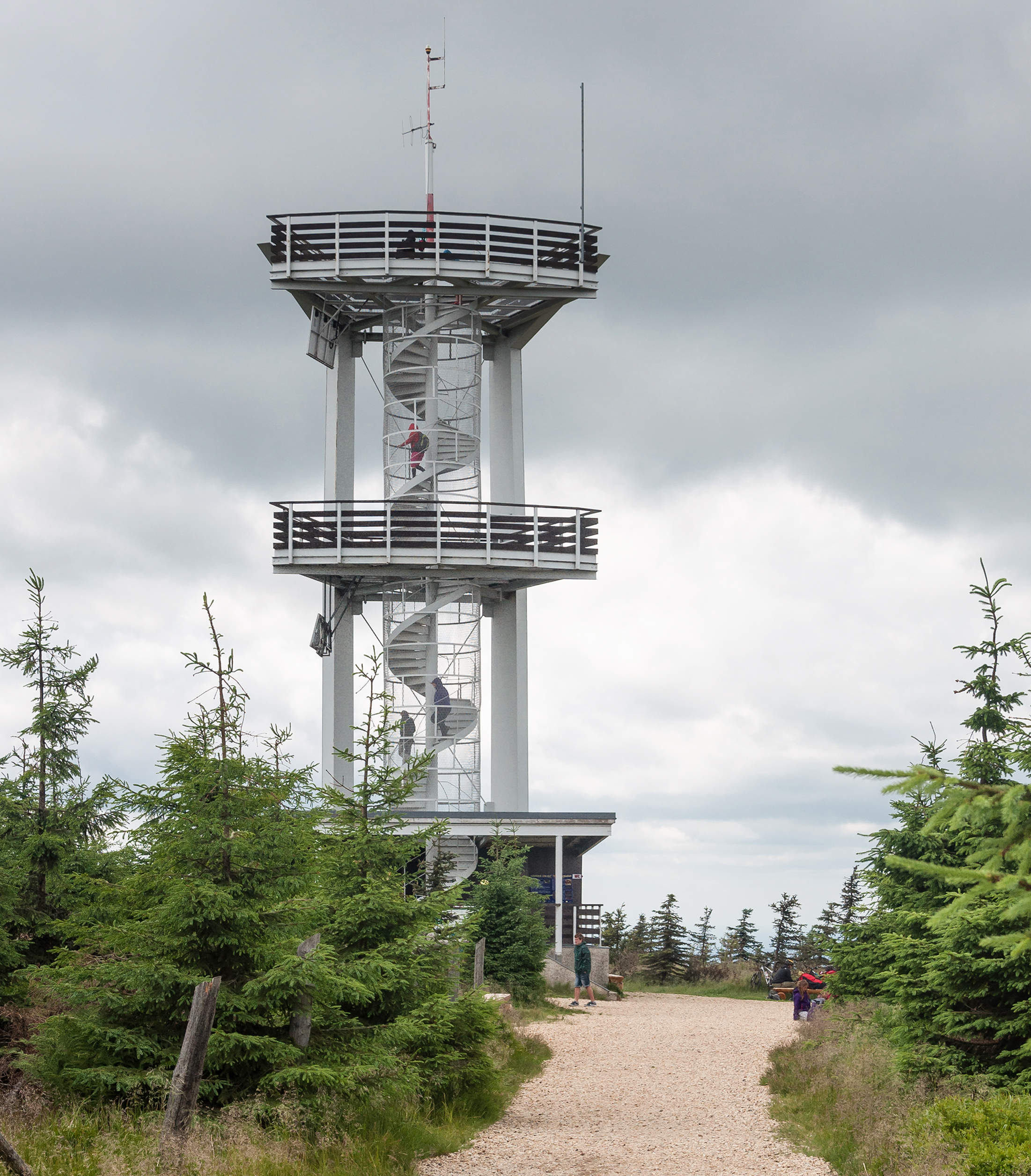 Observation tower on Smrk, Jizera Mountains